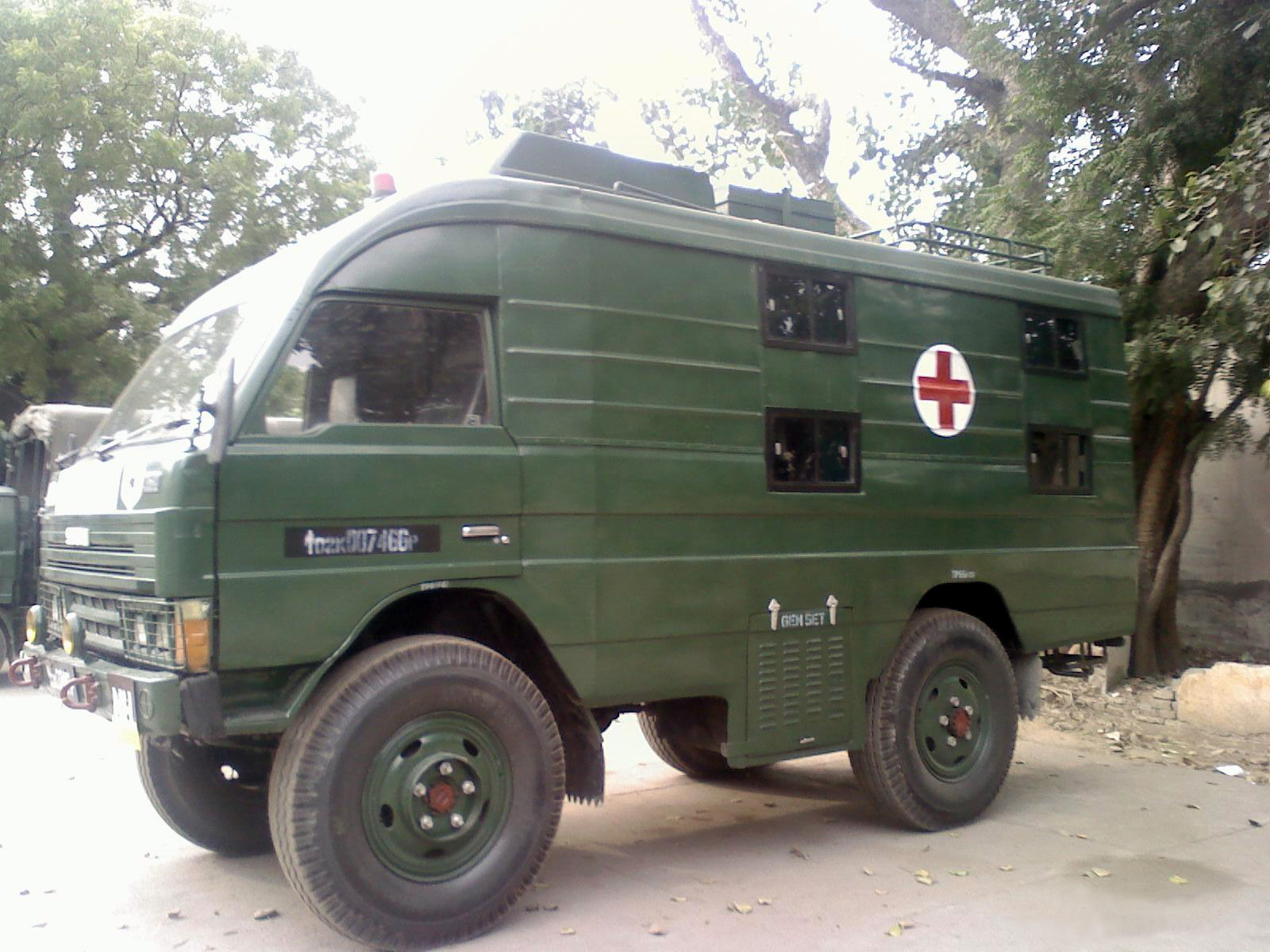 Swaraj Mazda T3500 4WD special Ambulance